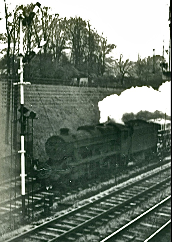 passenger trains had just been dieselised